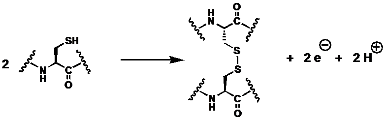 Disulfide bond formation